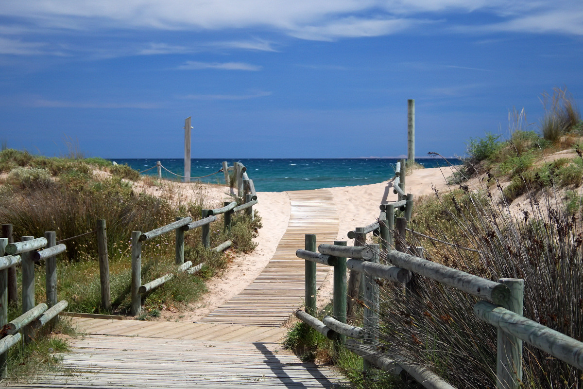 Els Muntanyans beach, the last remaining large natural beach on the Catalan coast between the Llobregat Delta to the south of Barcelona and the Ebro Delta.